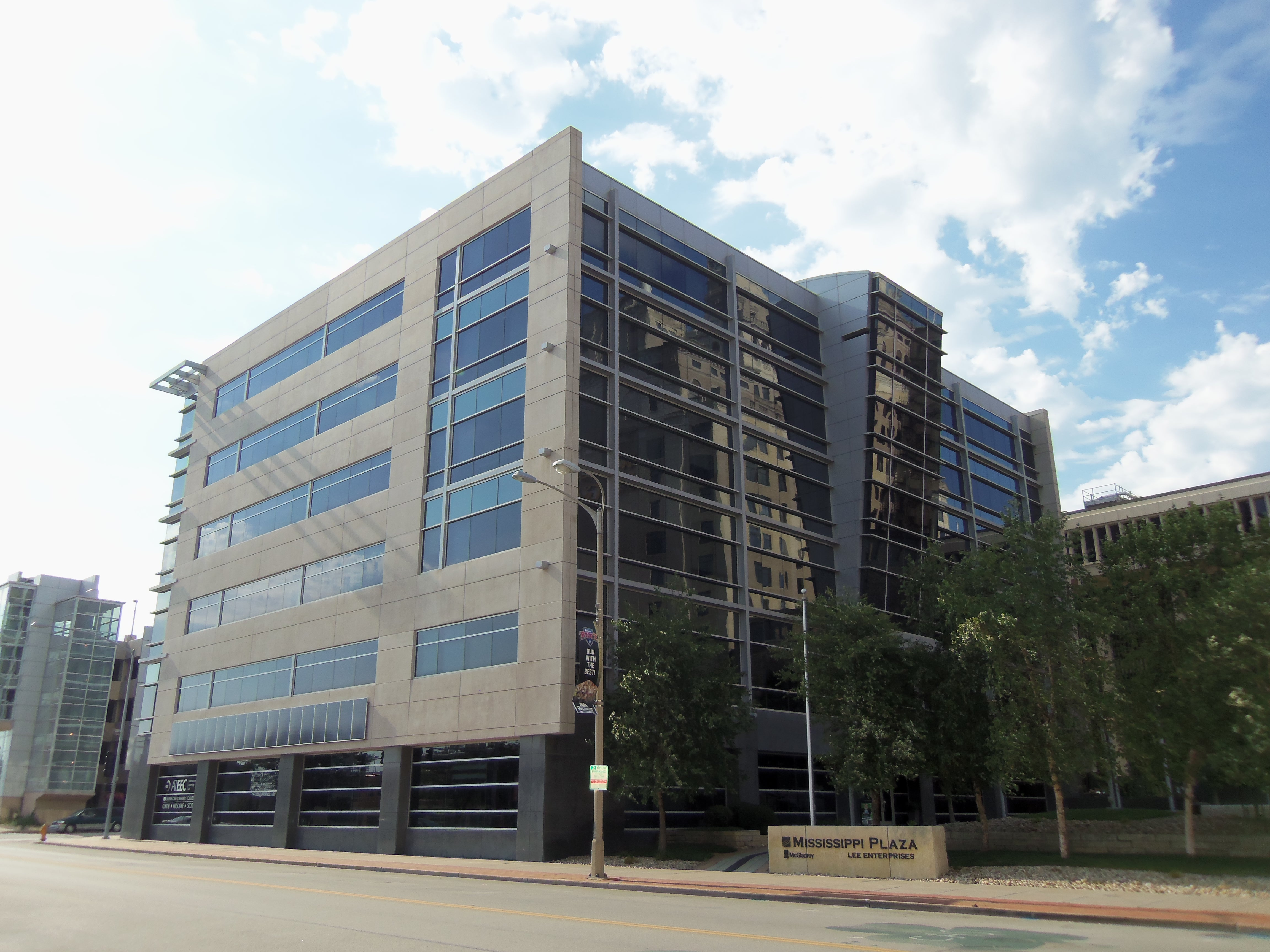 Mississippi Plaza from the southeast in downtown Davenport, Iowa